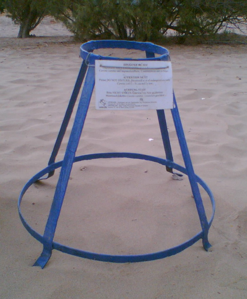 Protection of turtle eggs on the beach of Laganas, Zakynthos, Greece, Europe